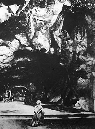 Saint Bernadette Soubirous in the grotto of Lourdes, photo of 1863, three years after the first vision.